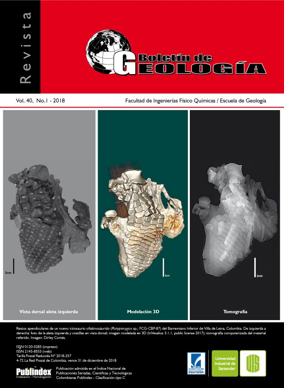 Front page of the 2018-I edition of Boletín de Geología, CC-BY 4.0-licensed scientific journal of the UIS